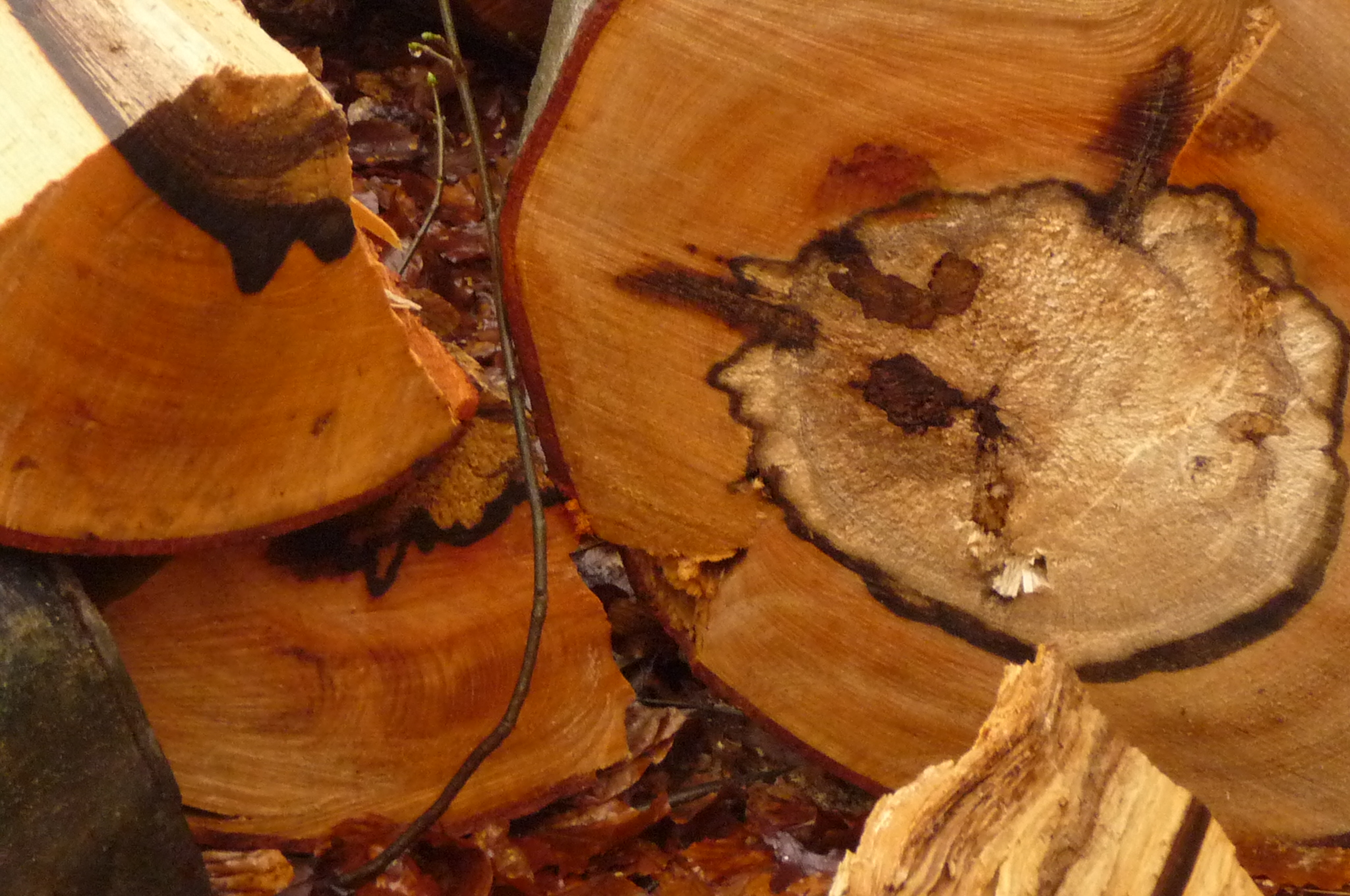 Fagus sylvatica